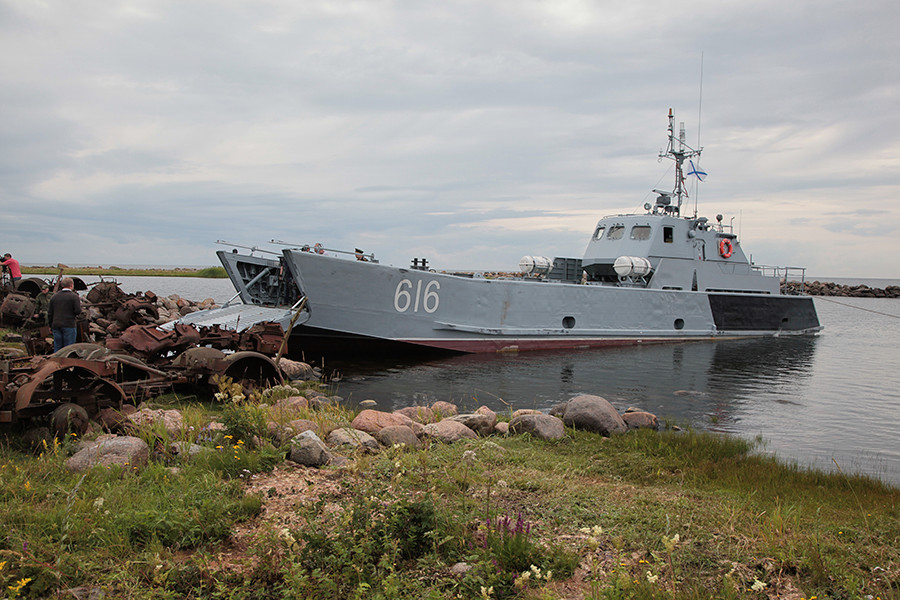 Kontr-admiral Olenin at the Gulf of Finland.